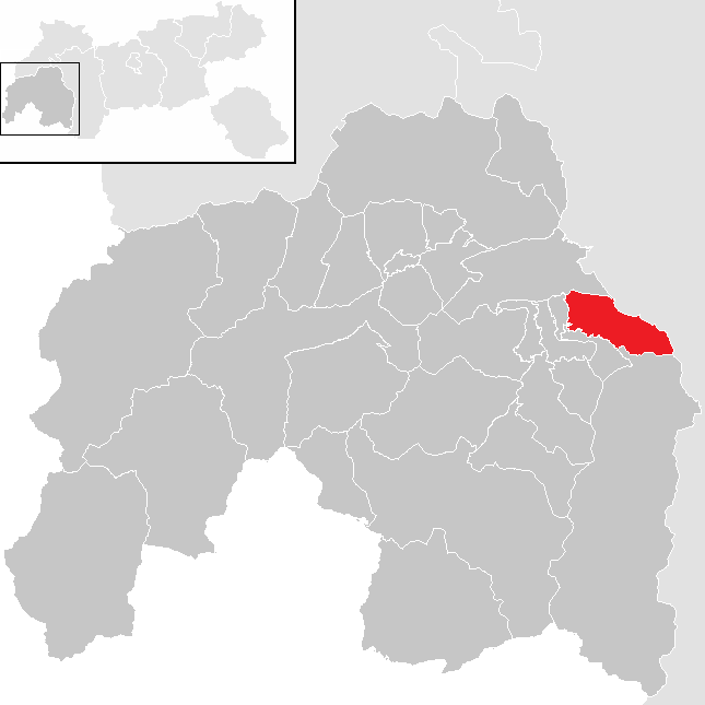 District Landeck